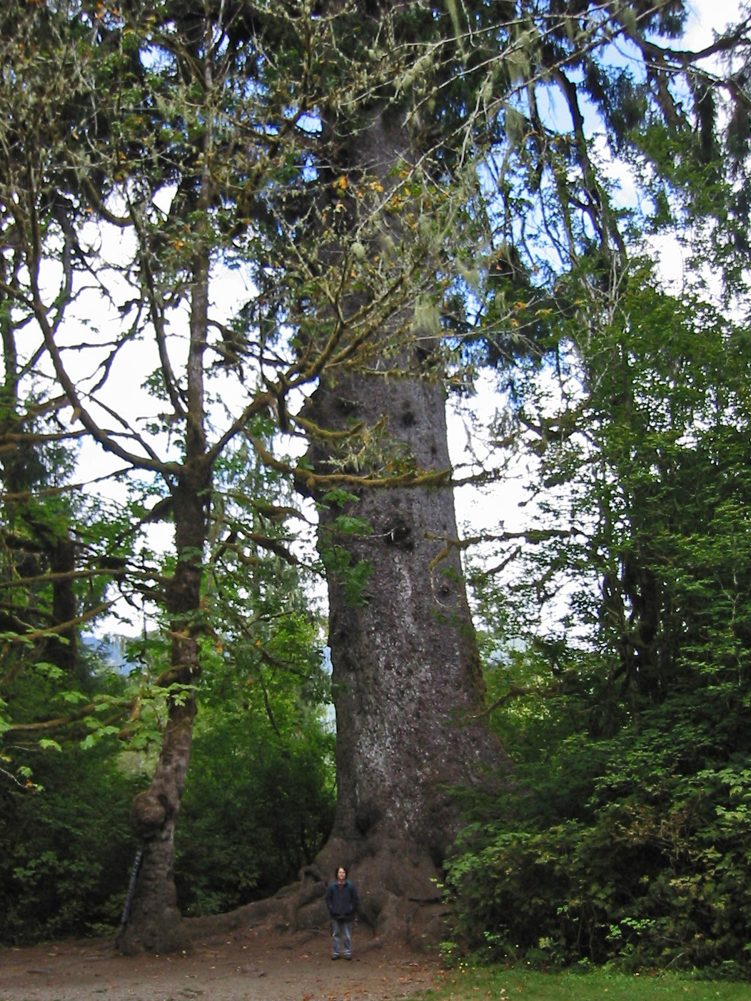 The third largest Sitka spruce in the world with a wood volume of 298 cubic meters (10,540 cu. ft.). It is 58.2 m (191 ft) high with a diameter of 5.39 m (17.7 ft.) at 1.37 m (4.5 ft.) above the ground (Van Pelt, Robert (2001) Forest Giants of the Pacific Coast, University of Washington Press ISBN: 0295981407. ). Viewpoint location: It is located near the eastern tip of Quinault Lake north of Aberdeen, Washington, about 39 km (24 miles) from the Pacific Ocean and is just outside the southwest corner of Olympic National Park, Washington, USA. Viewpoint elevation: 190' View direction: North Camera: Canon PowerShot S110 Photographer: Walter Siegmund ©2005 Walter Siegmund